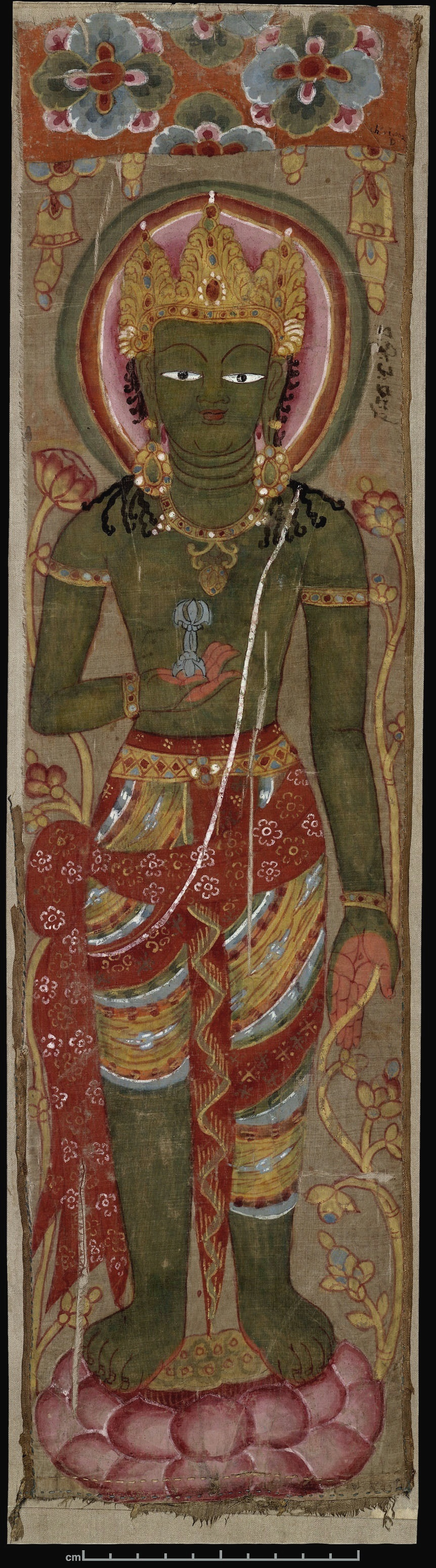 Bodhisattva Vajrapani, 9th century, British Museum. One of the earliest tibetan thangkas.